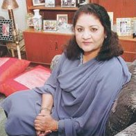 Photograph of Shahida Hassan which was taken in her home.